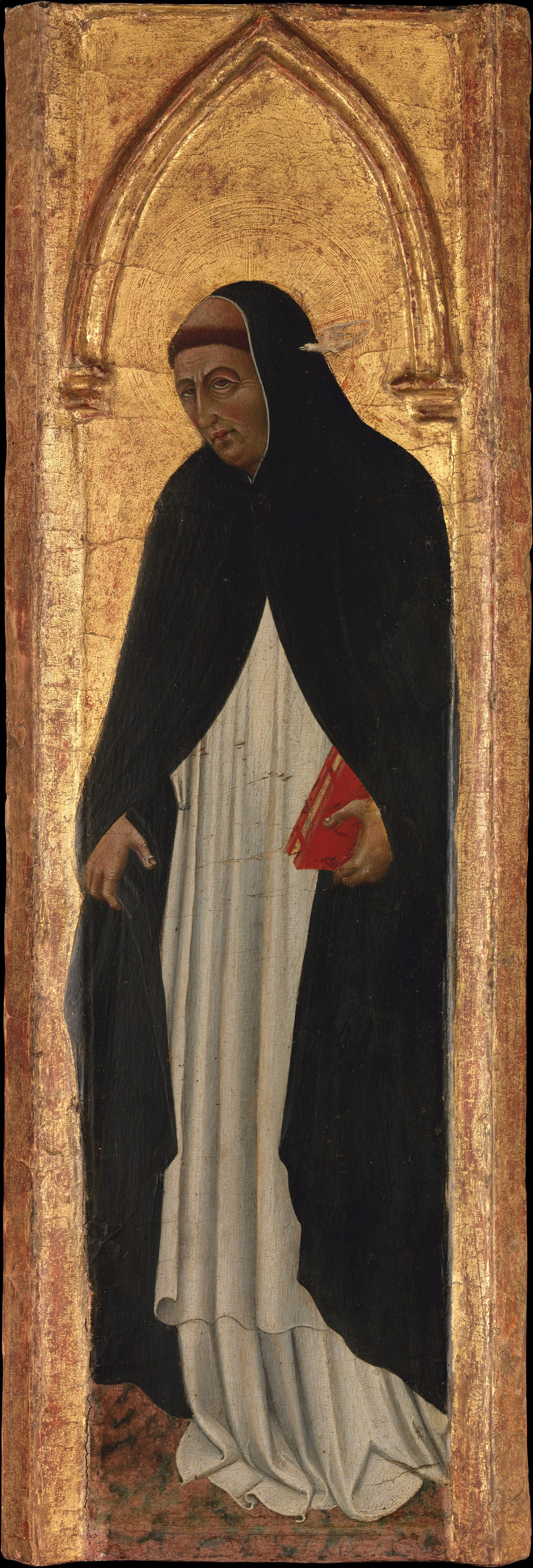 Giovanni di Paolo (Giovanni di Paolo di Grazia) (Italian, Siena 1398–1482 Siena) The Blessed Ambrogio Sansedoni, 1447–65, Tempera on wood, gold ground; Overall, with engaged frame, 20 5/8 x 7 in. (52.4 x 17.8 cm); painted surface 19 1/4 x 4 7/8 in. (48.9 x 12.4 cm) The Metropolitan Museum of Art, New York, Robert Lehman Collection, 1975 (1975.1.56)